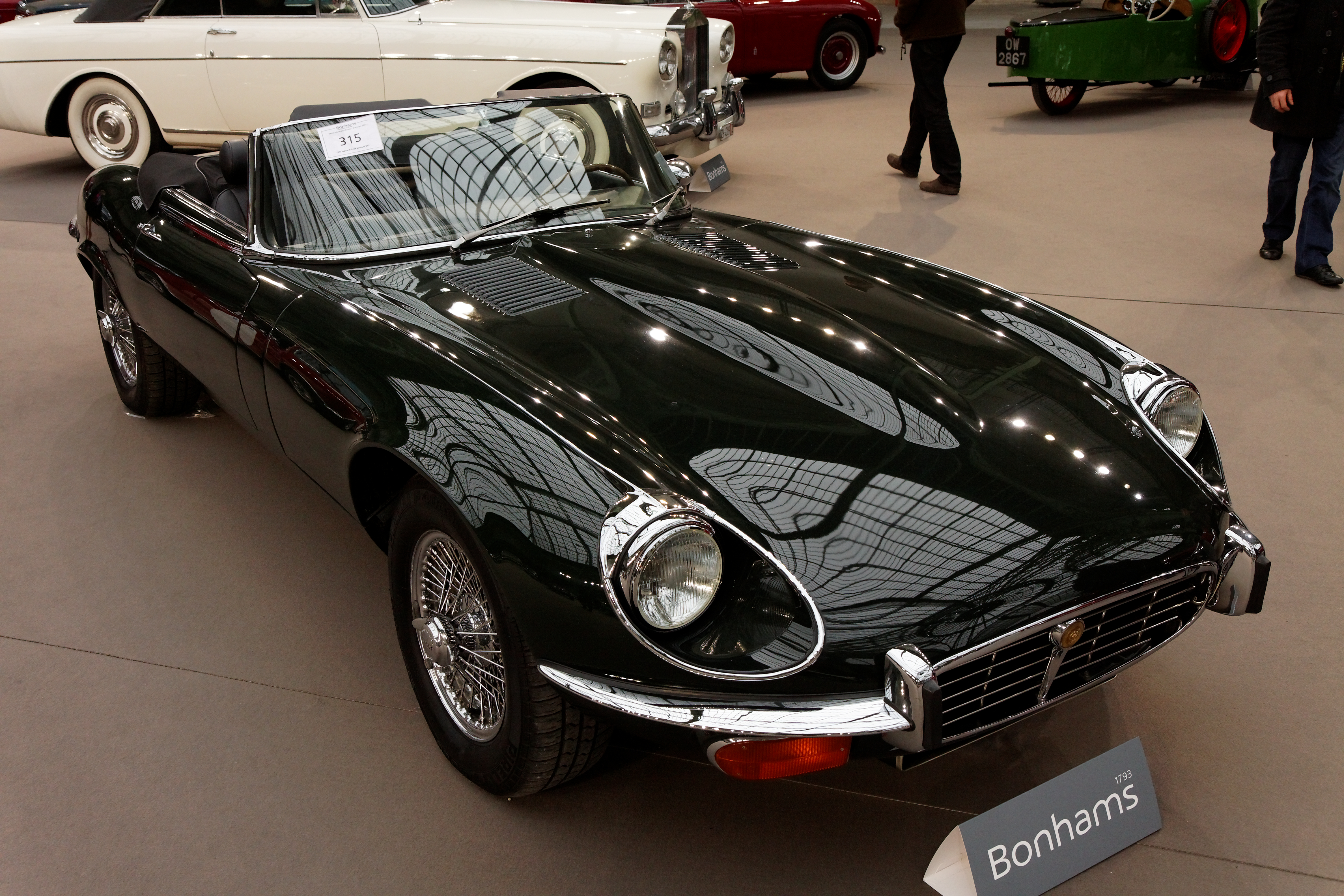 Jaguar E-Type Series III V12 Roadster